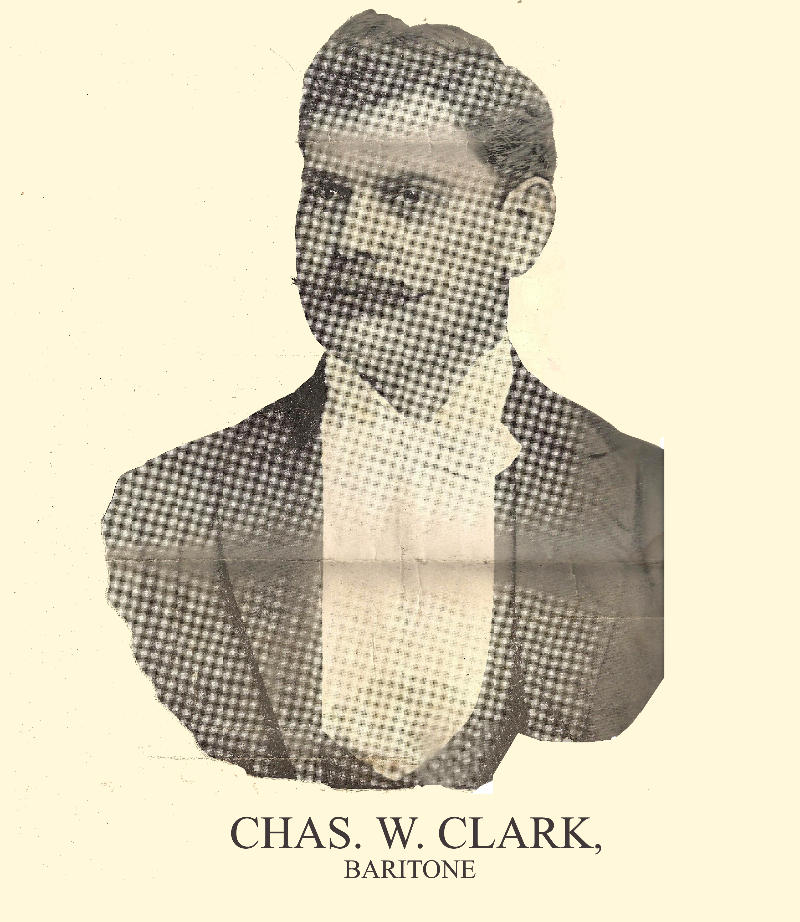 Charles W. Clark promotional flyer